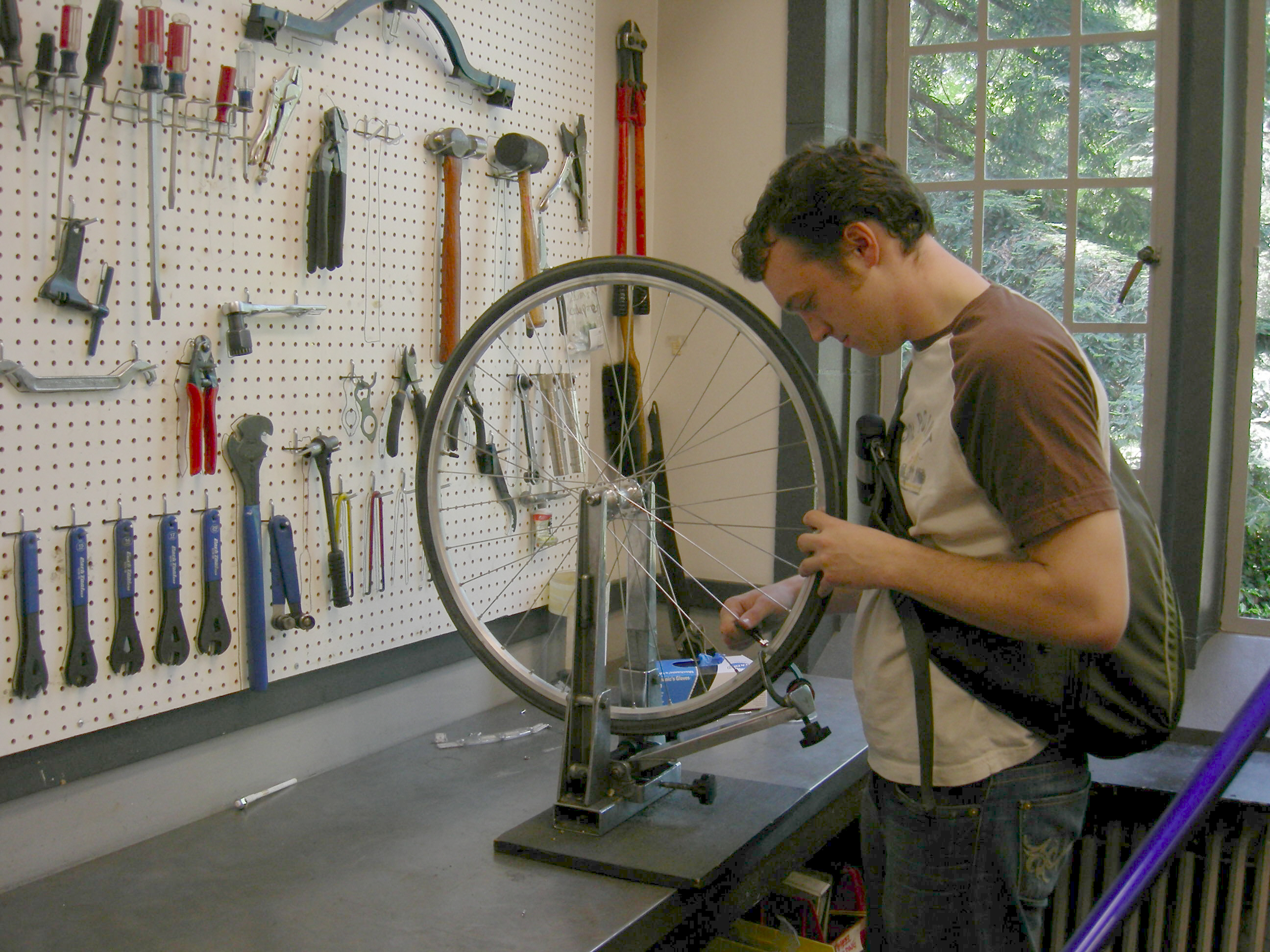 Truing a wheel. Associated Students of the University of Washington (ASUW) bicycle shop, Husky Union Building (HUB), University of Washington, Seattle, Washington.